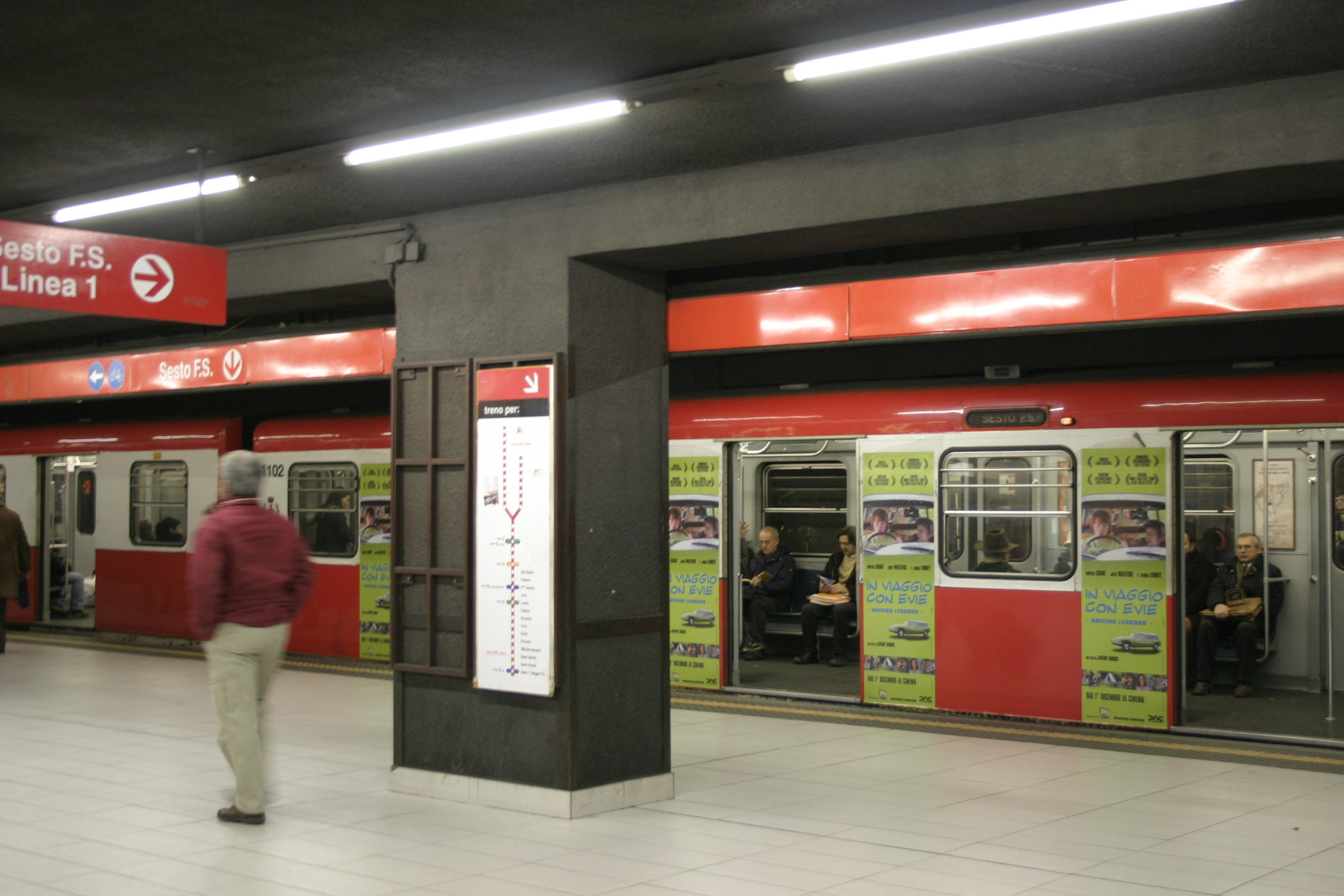 Subway station ("Red" line) in Milan, Italy.